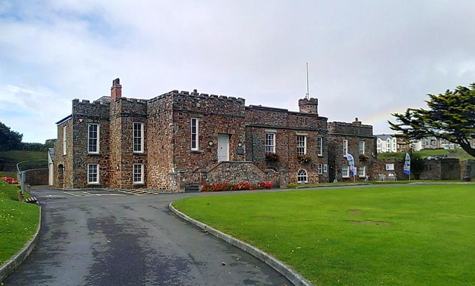 The Castle, a building in Bude, Cornwall constructed by Goldsworthy Gurney.